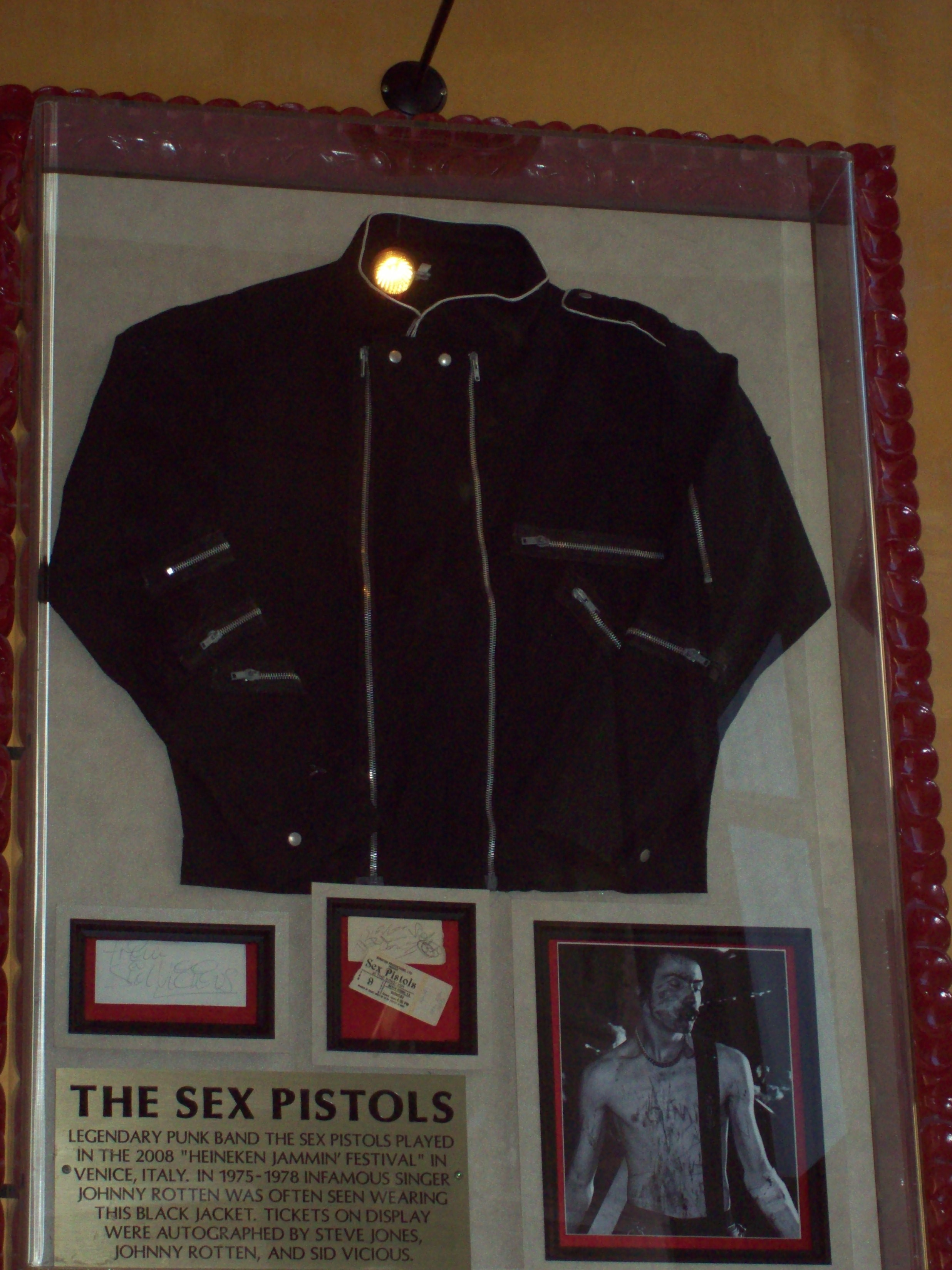 A Sid Vicious Johnny Rotten's Jacket, along with tickets autographed by Steve Jones, Johnny Rotten, and Sid Vicious